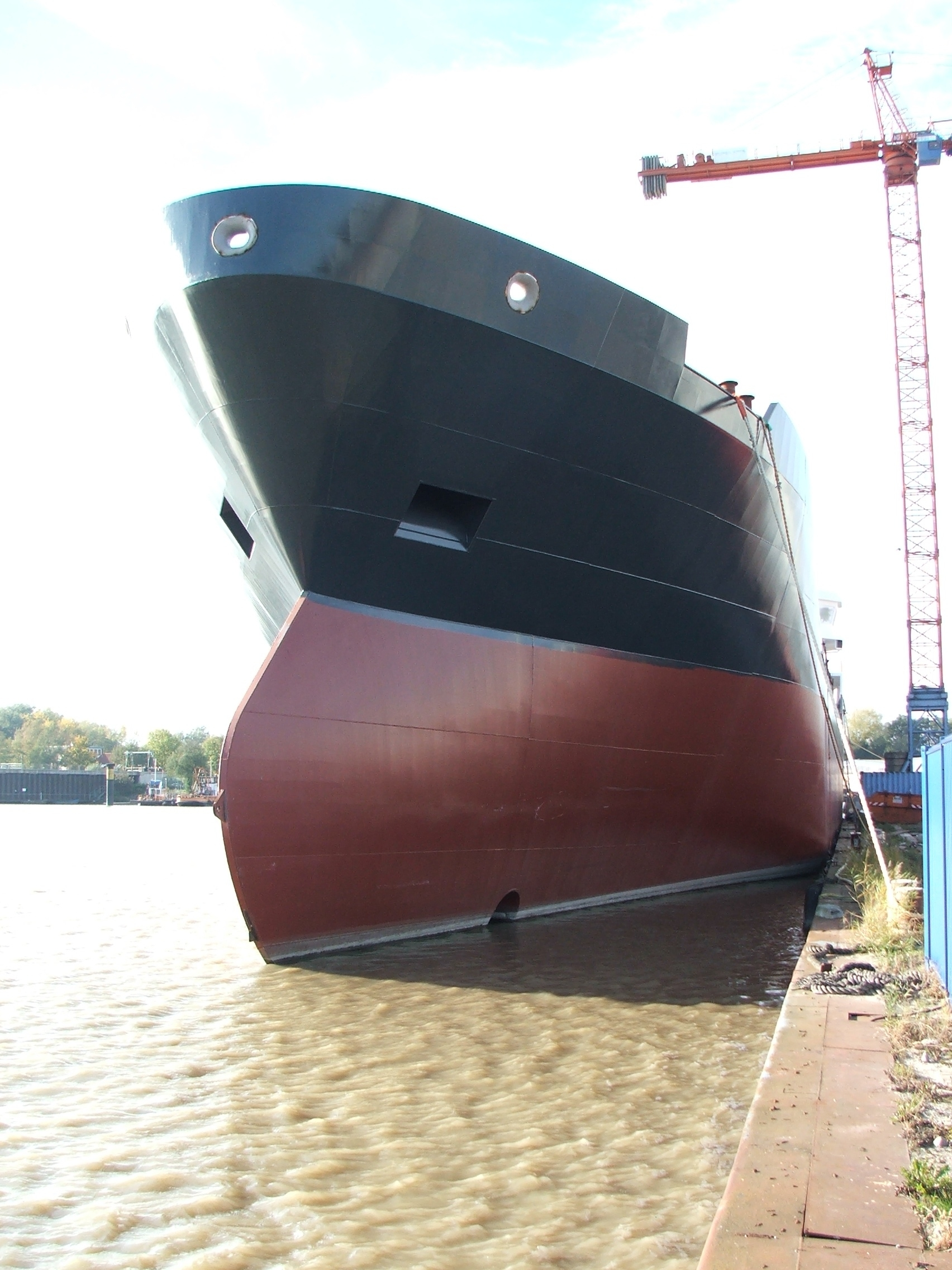 Bulbous bow